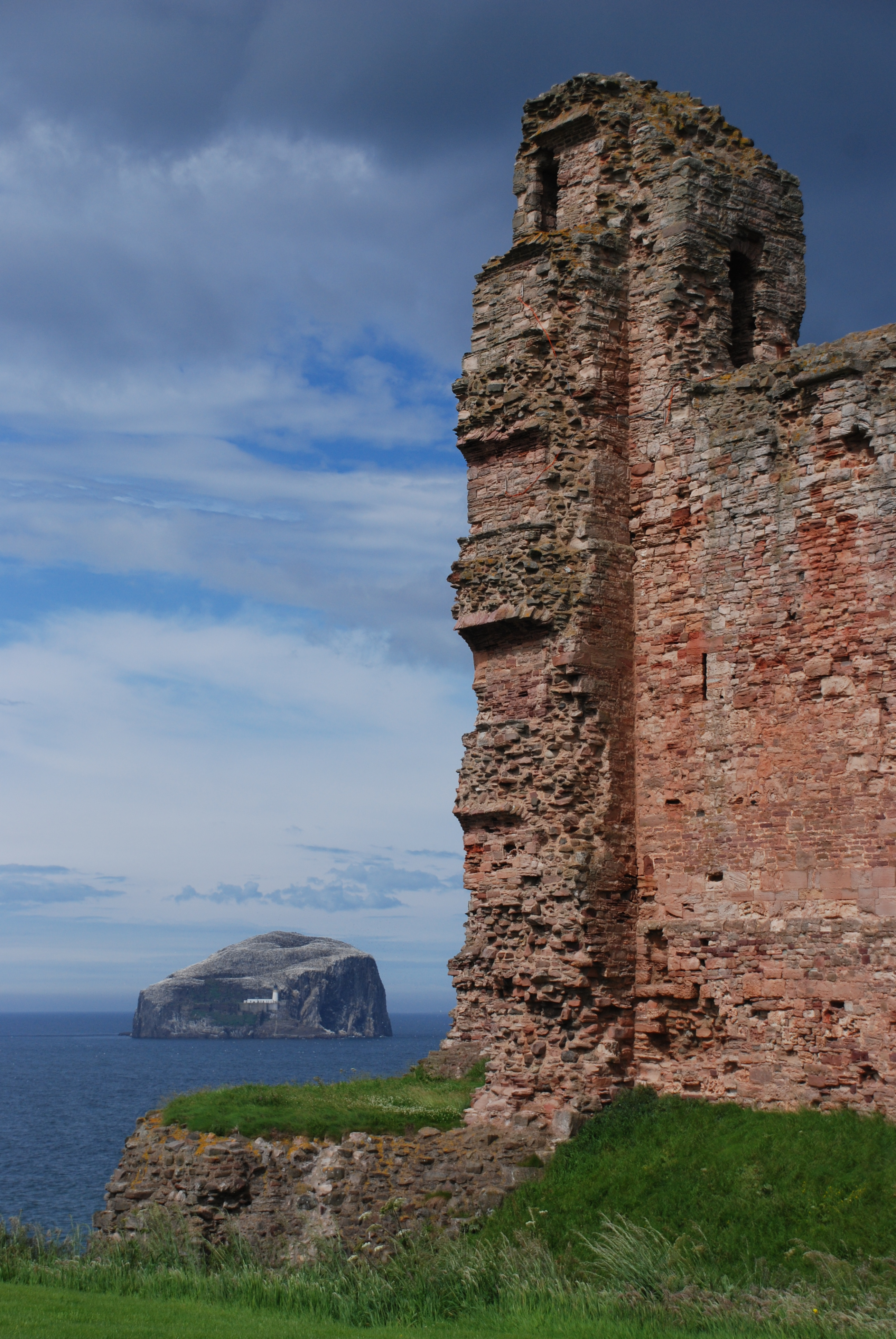 Southwestern tower of Tantallon Castle with Bass Rock in the distance